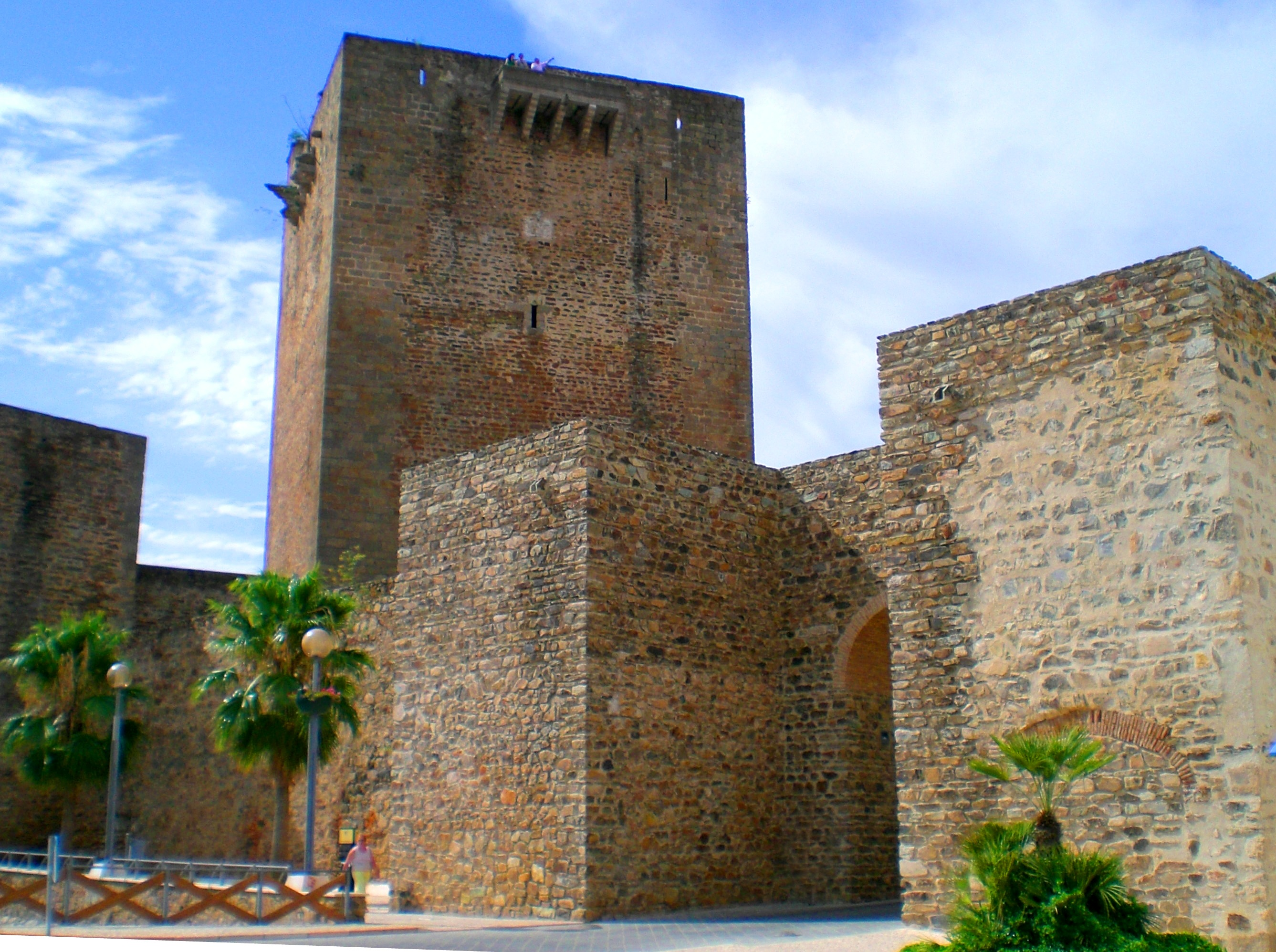 Castle of Olivenza, Spain